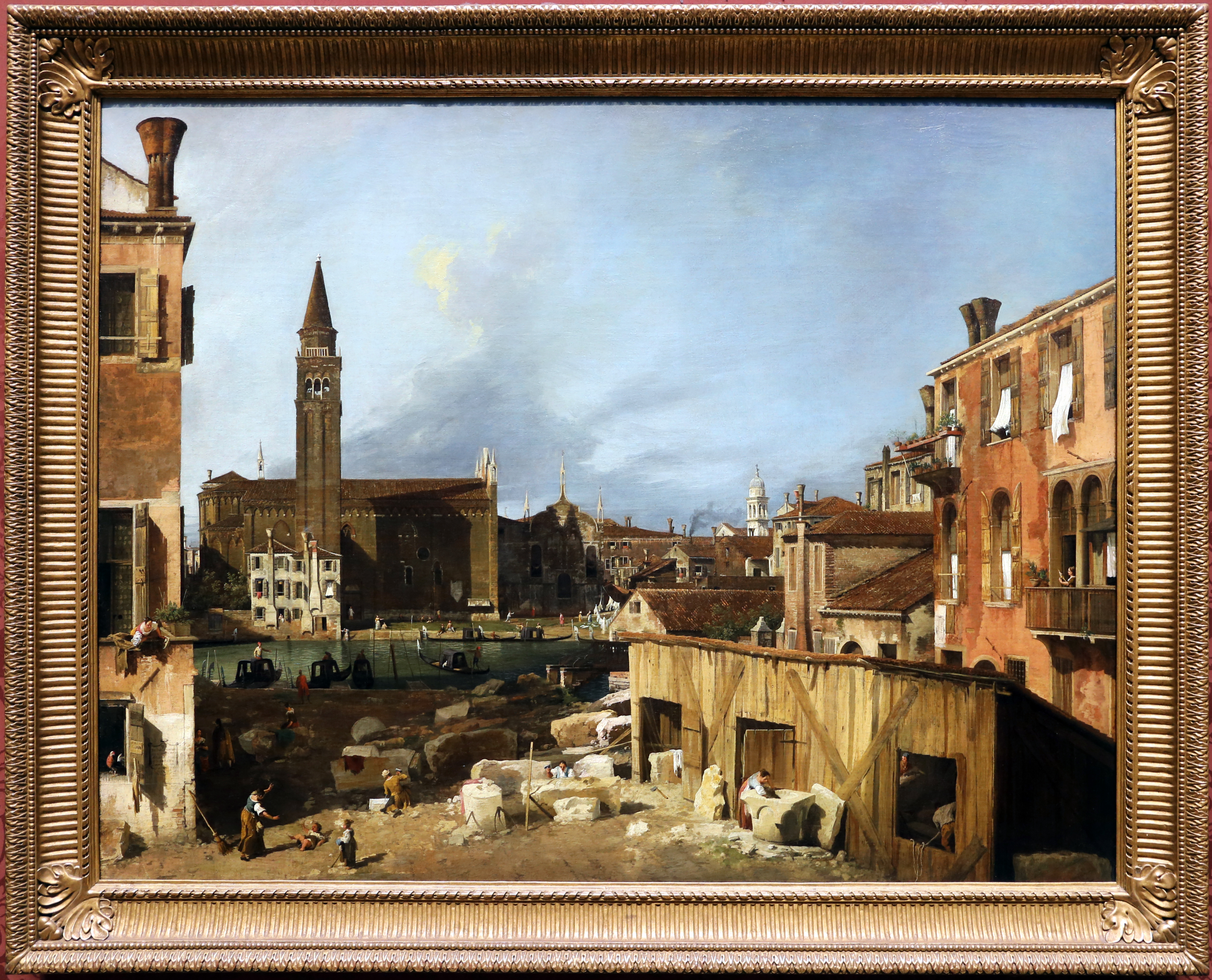 Italian Rococo paintings in the National Gallery, London